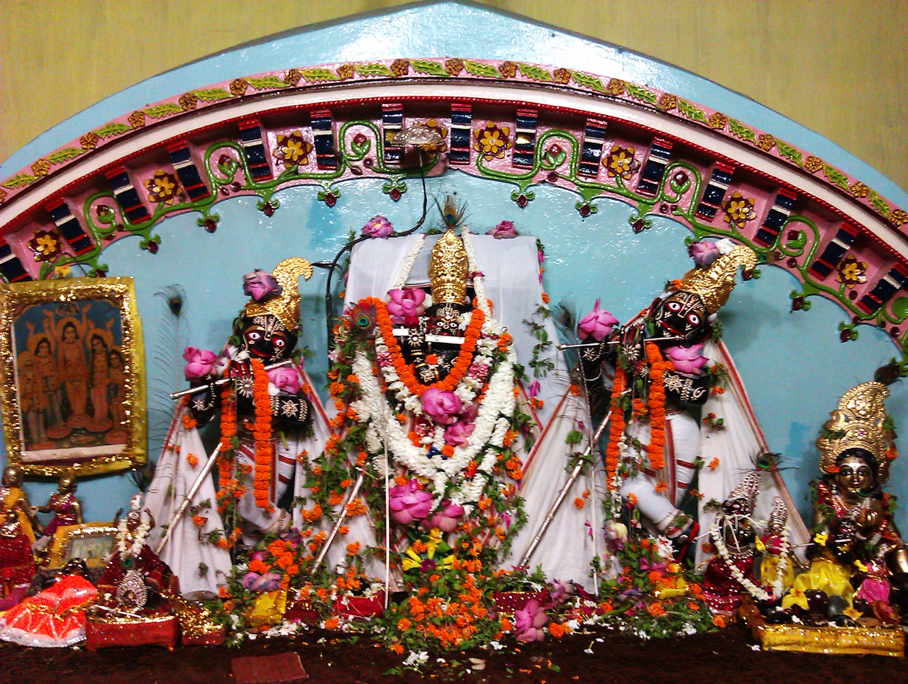 Lord Srikrishna as Madanmohan, Gopinath and Govinda in Khirachora Gopinatha temple. ଓଡ଼ିଆ: ଭଗବାନ ଶ୍ରୀକୃଷ୍ଣ ମଦନମୋହନ, ଗୋପୀନାଥ ଏବଂ ଗୋବିନ୍ଦଙ୍କ ନାମରେ କ୍ଷୀରଚୋରା ଗୋପୀନାଥ ମନ୍ଦିରରେ ବିରାଜମାନ ।